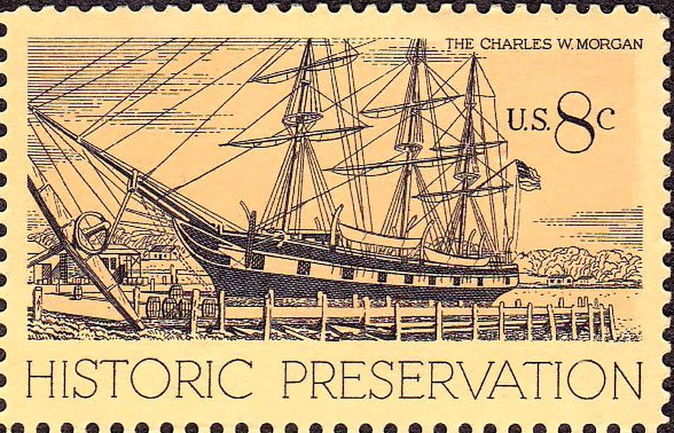 U.S. Postage: Ship, C.W.Morgan, 1971 Issue, 8c